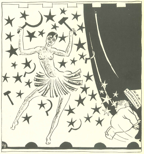 caricature from the Swedish newspaper Folkets Dagblad Politiken from 1928. The caricature portrays the conservative newspaper editor Ljunglund as delerious, seeing Josephine Baker as a bolshevik agitator. The caricature was drawn in response to an editorial by Ljunglund in the newspaper Nytt Dagligt Allehanda, which labelled Baker's performance in Stockholm as one of several communist gospels.